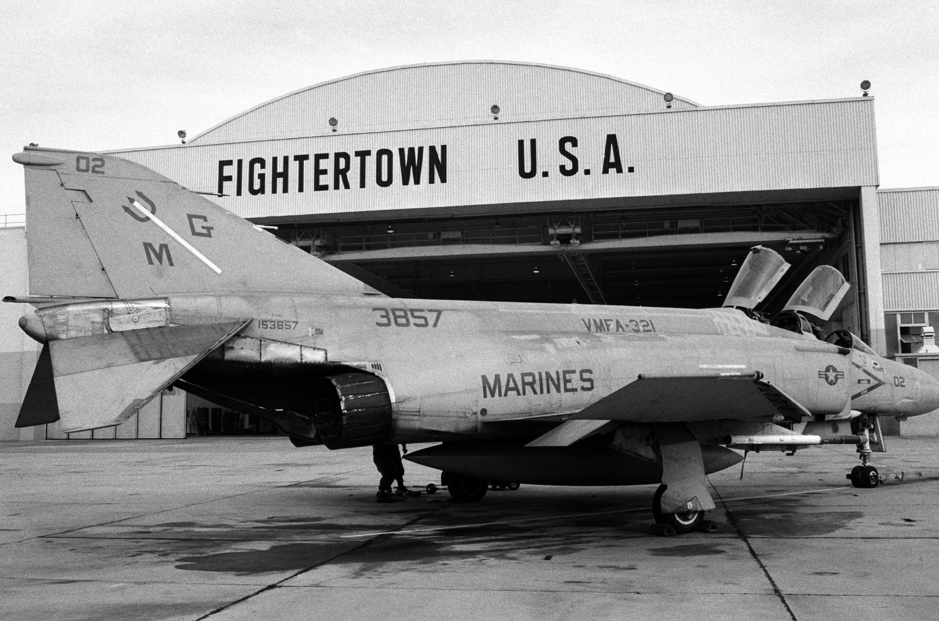 A U.S. Marine Corps Reserve McDonnell Douglas F-4S Phantom II aircraft (BuNo 153857) of Marine Fighter Attack Squadron VMFA-321 Hell’s Angels is serviced on the flight line at Naval Air Station Miramar, California (USA), on 2 April 1987. This aircraft was retired to the AMARC as 8F0298 on 28 April 1988.